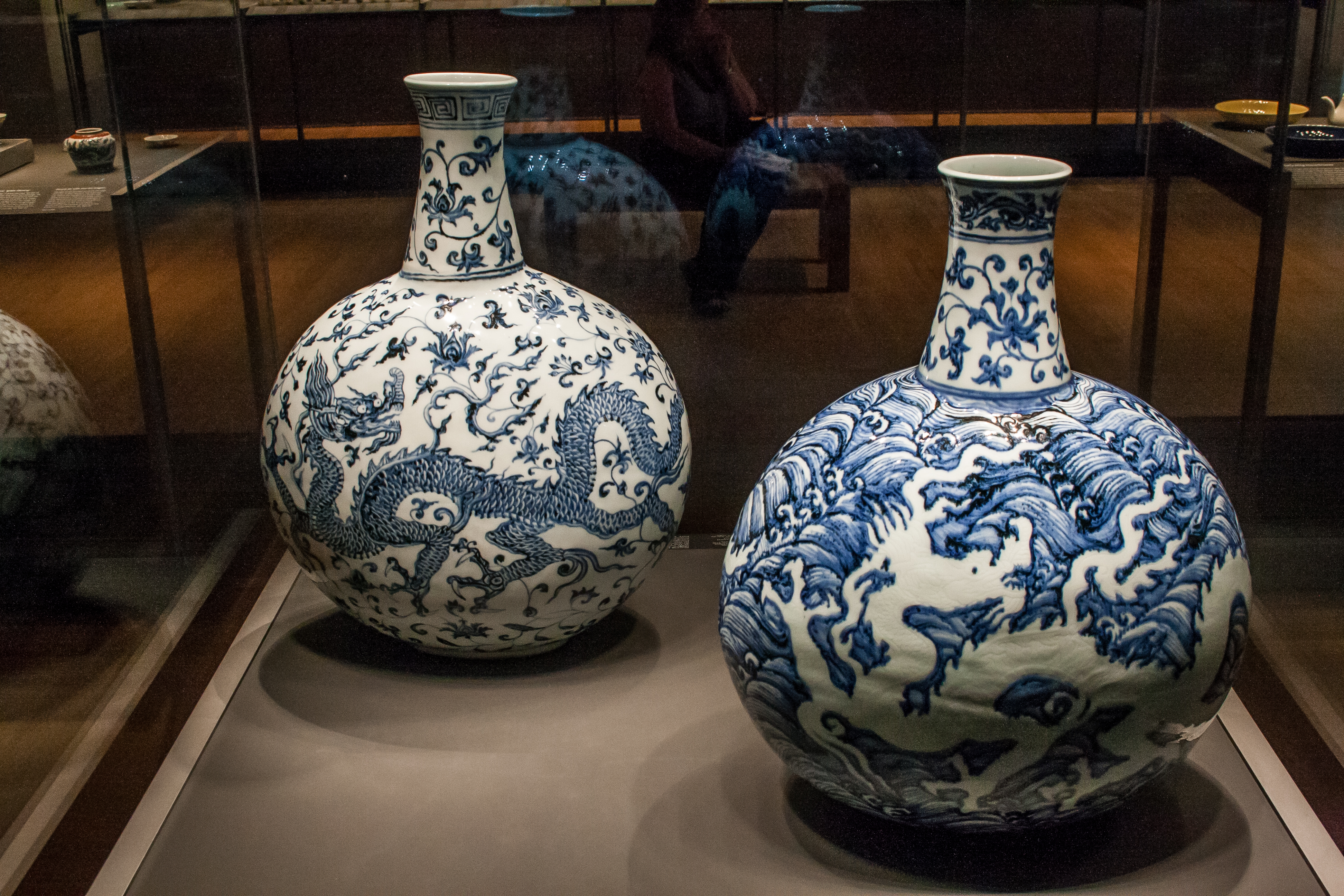 Ming dynasty, 1403-24.